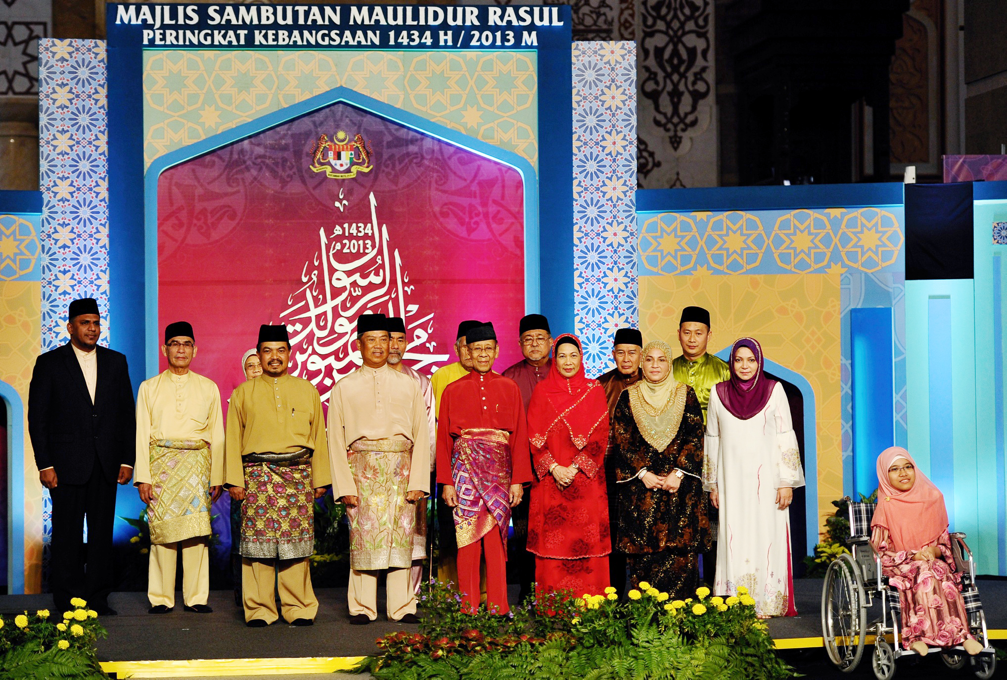 Putrajaya,24/01/2013.Sultan Abdul Halim Mu'adzam Shah of Kedah the Yang di-Pertuan Agong of Malaysia to take a photo with recipients Tokoh Maulidur Rasul National Award winner during a Maulidur Rasul parade in Putrajaya, aslo known as Mawlid the birthday of Prophet Muhammad at Putrajaya Putra Mosque..Pix Firdaus Latif